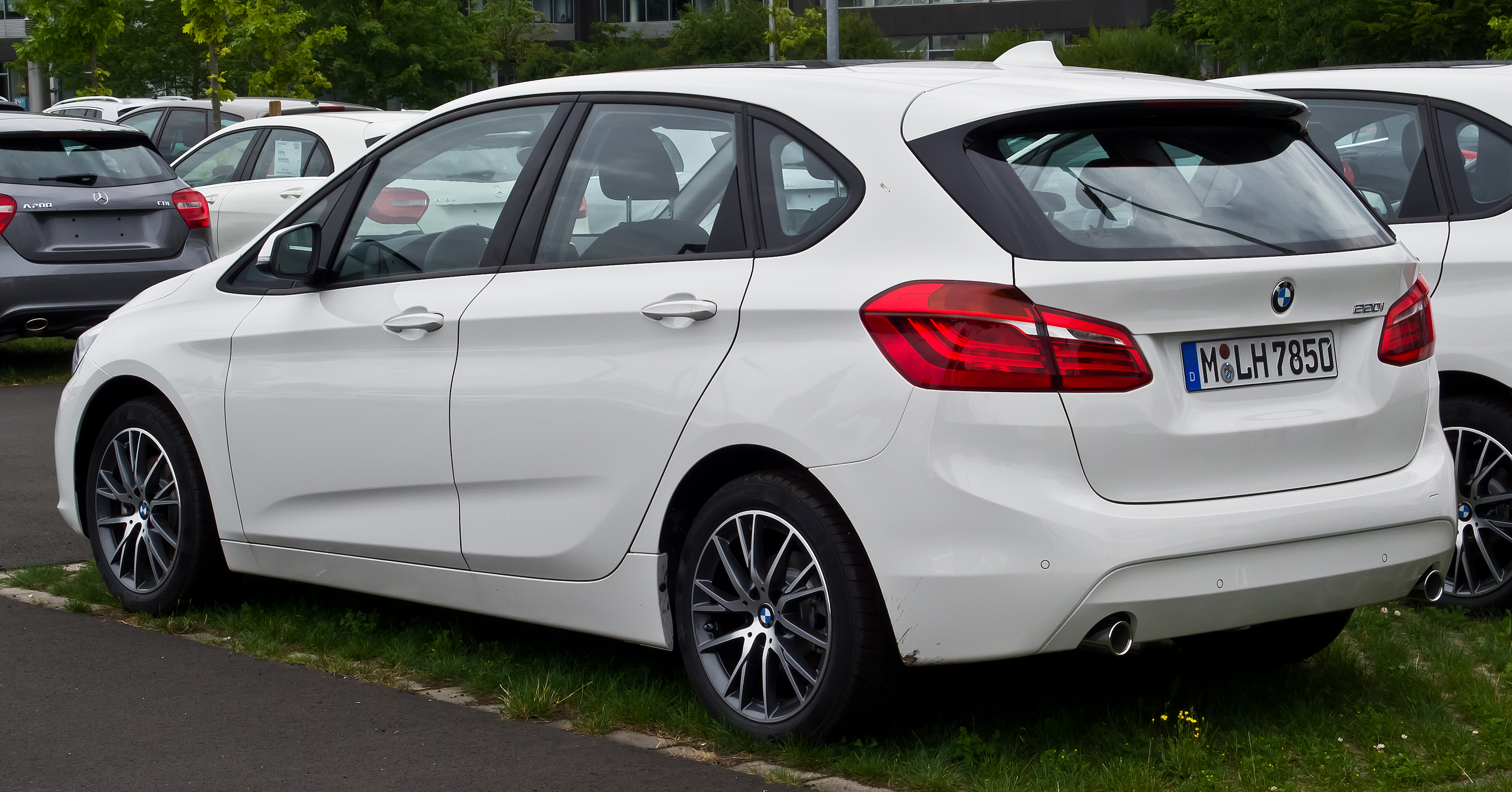 BMW 220i Active Tourer (F45)